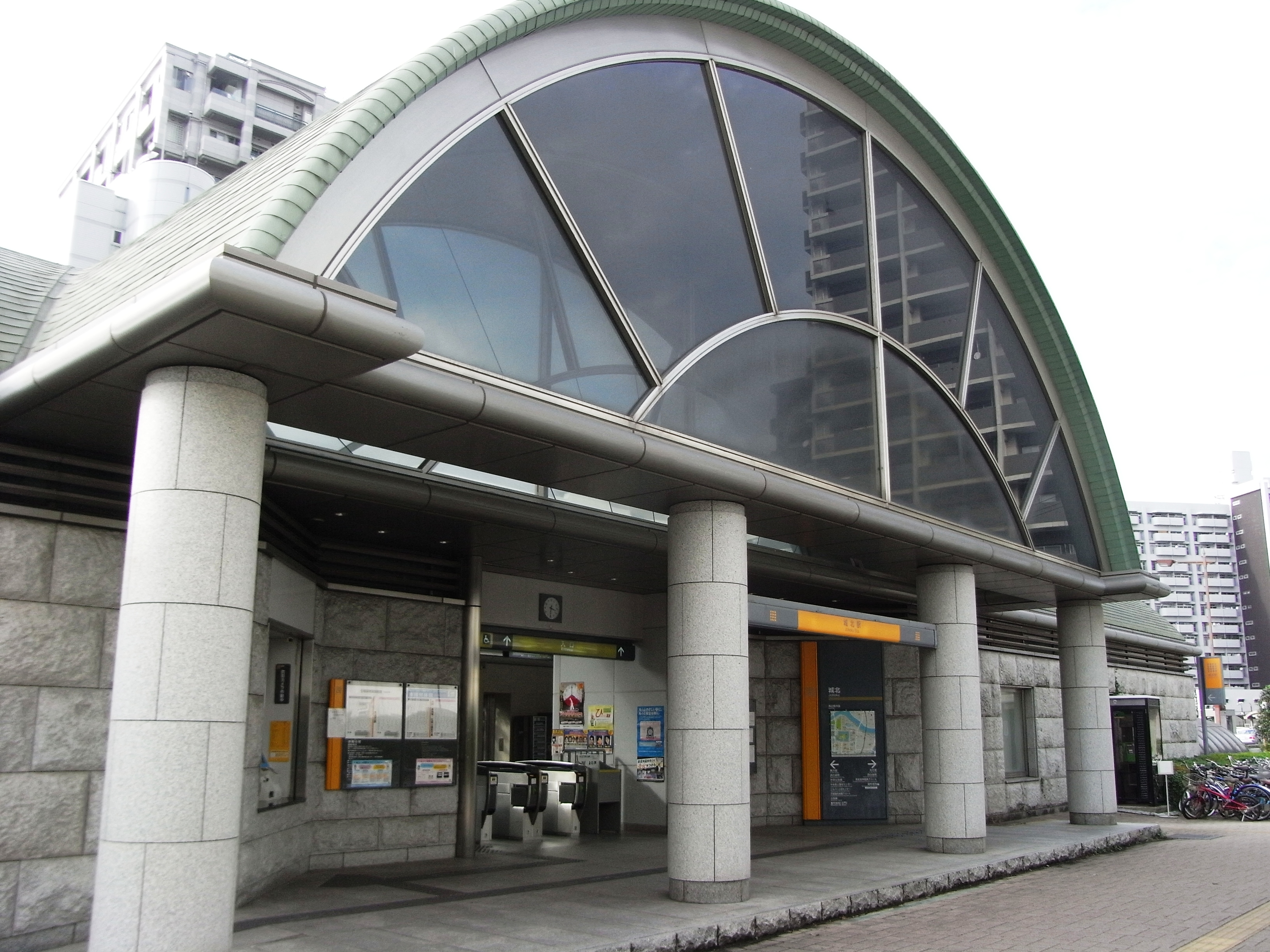 2009年9月21日、本人撮影 城北駅 Description 城北駅 GFDL,CC-BY-SA 3.0 Unported category:広島市の画像 category:鉄道駅画像 Category:広島高速交通の画像 城北駅